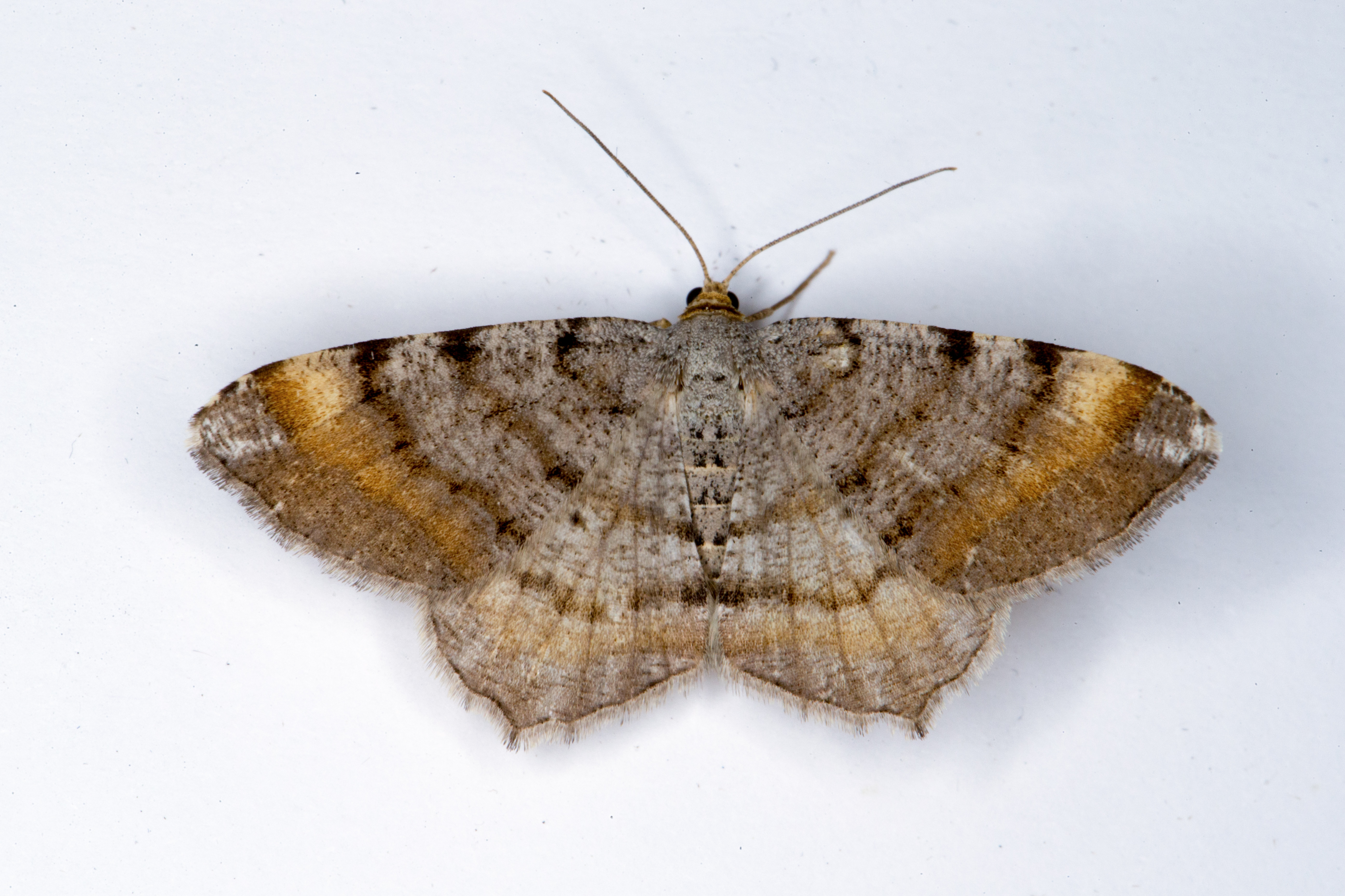 Tawny-barred Angle